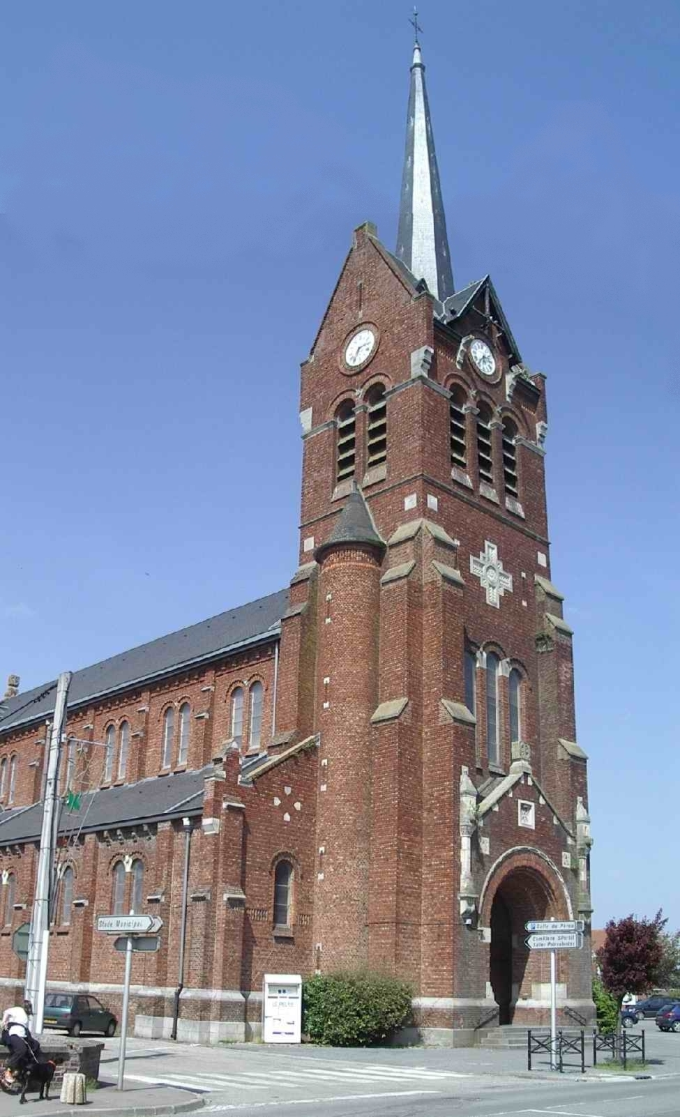 Church of Le Doulieu (Nord, France)